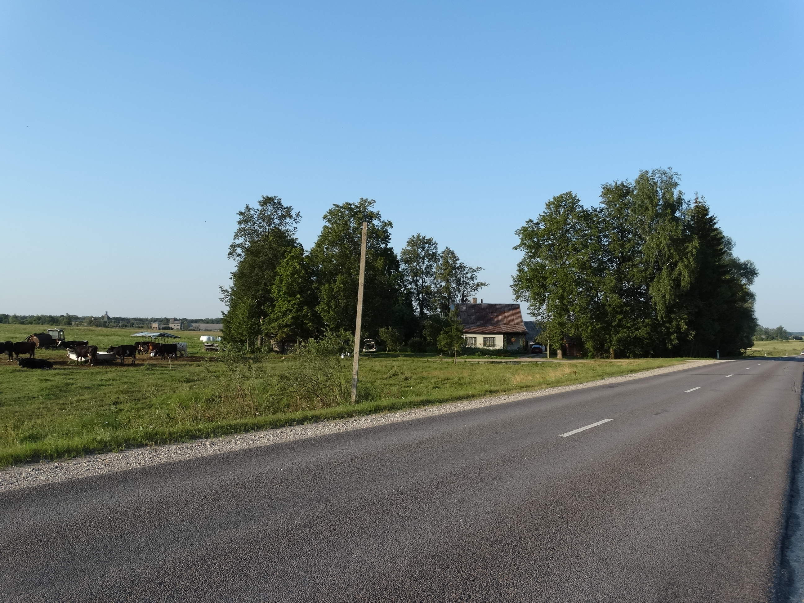 Gireišiai, Rokiškis District, Lithuania